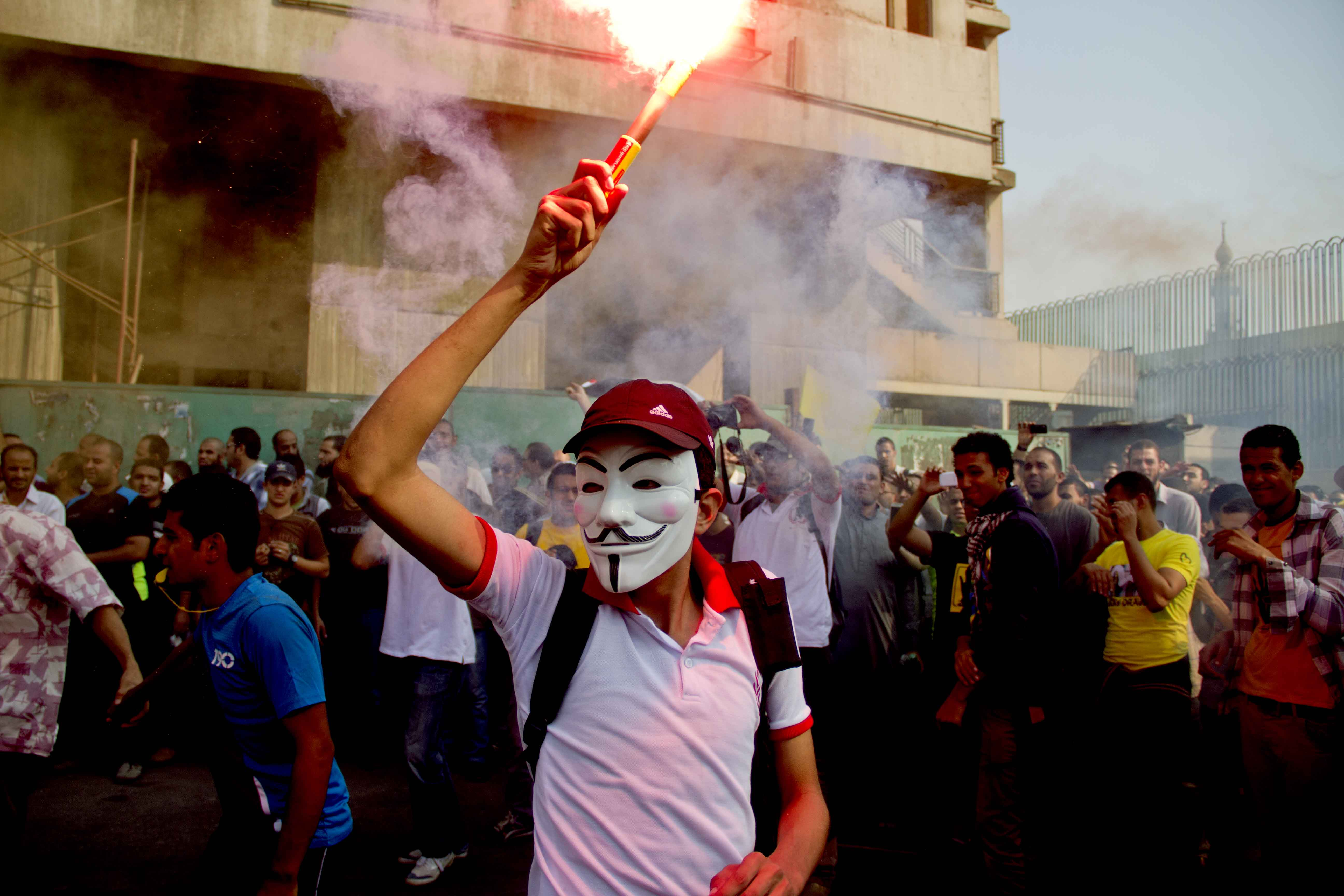 Original description: "An anti-coup protester wearing a Guy Fawkes mask hold a flare during a demonstration in Cairo, Oct. 6, 2013. (H. Elrasam for VOA)"